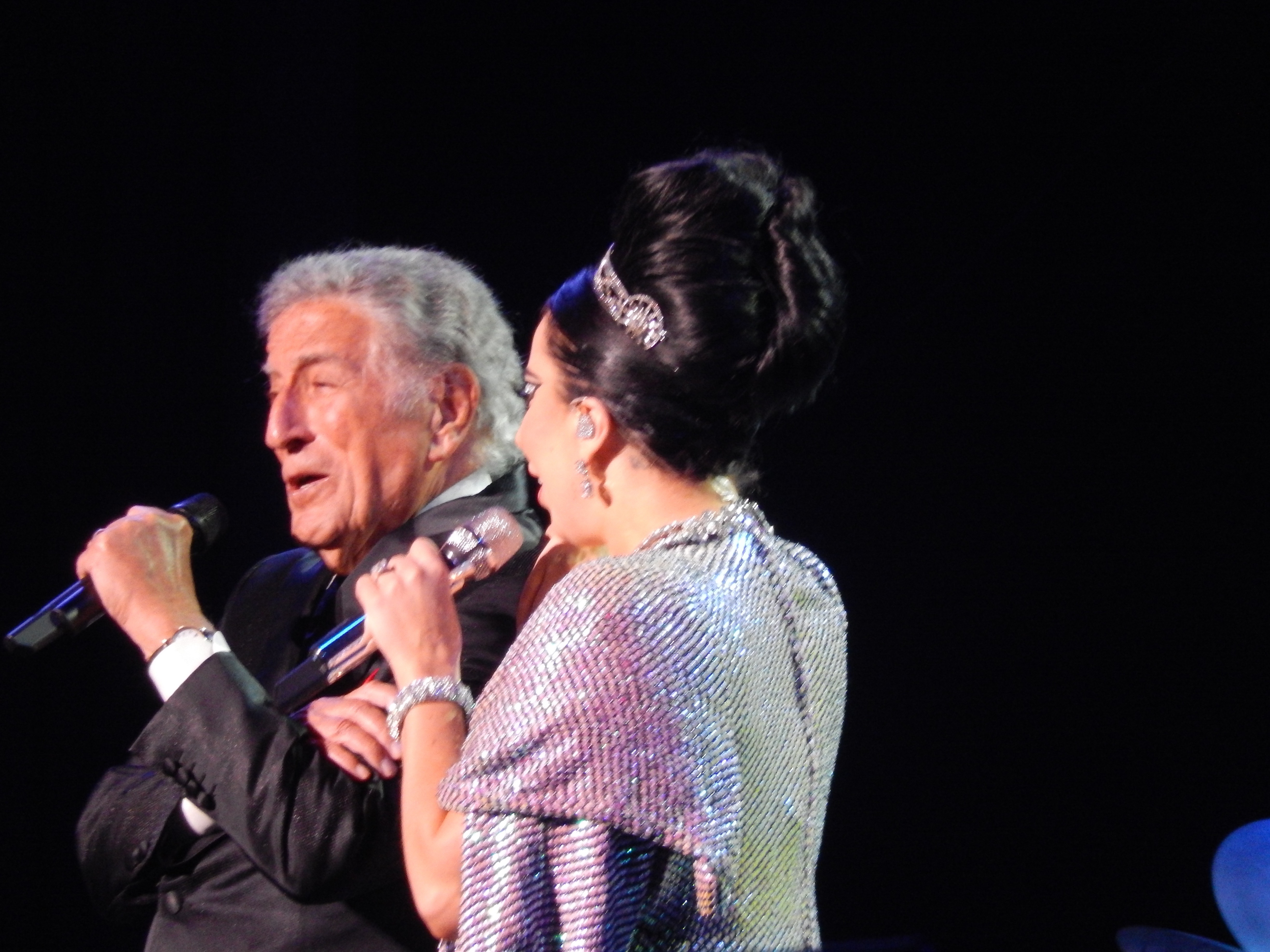 Cheek to Cheek Concert. The Axis. Planet Hollywood. Las Vegas. April 2015. Gaga and Bennett performing at Los Angeles for the Cheek to Cheek Tour